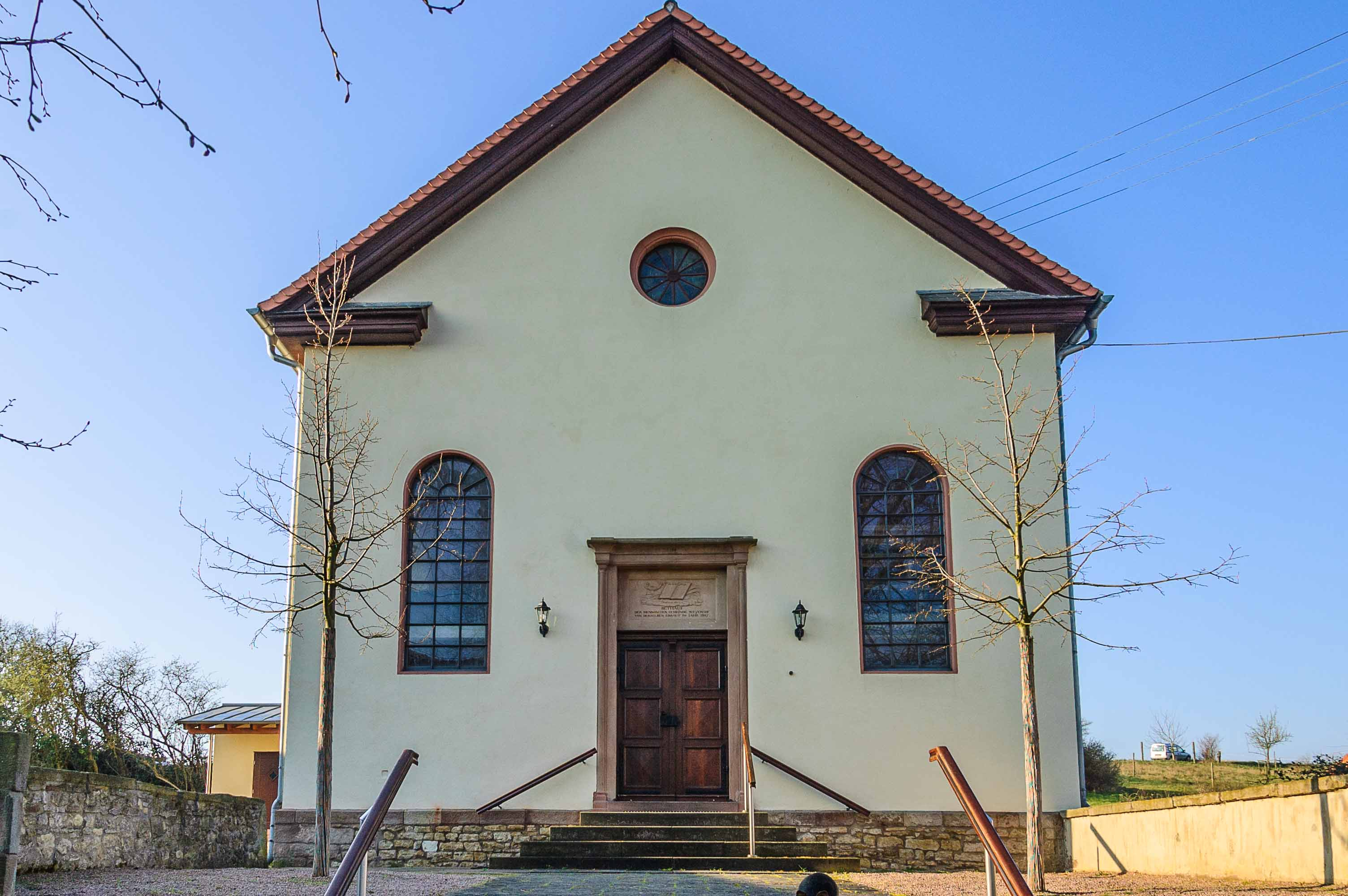 Weierhof, Mennonitische Kirche